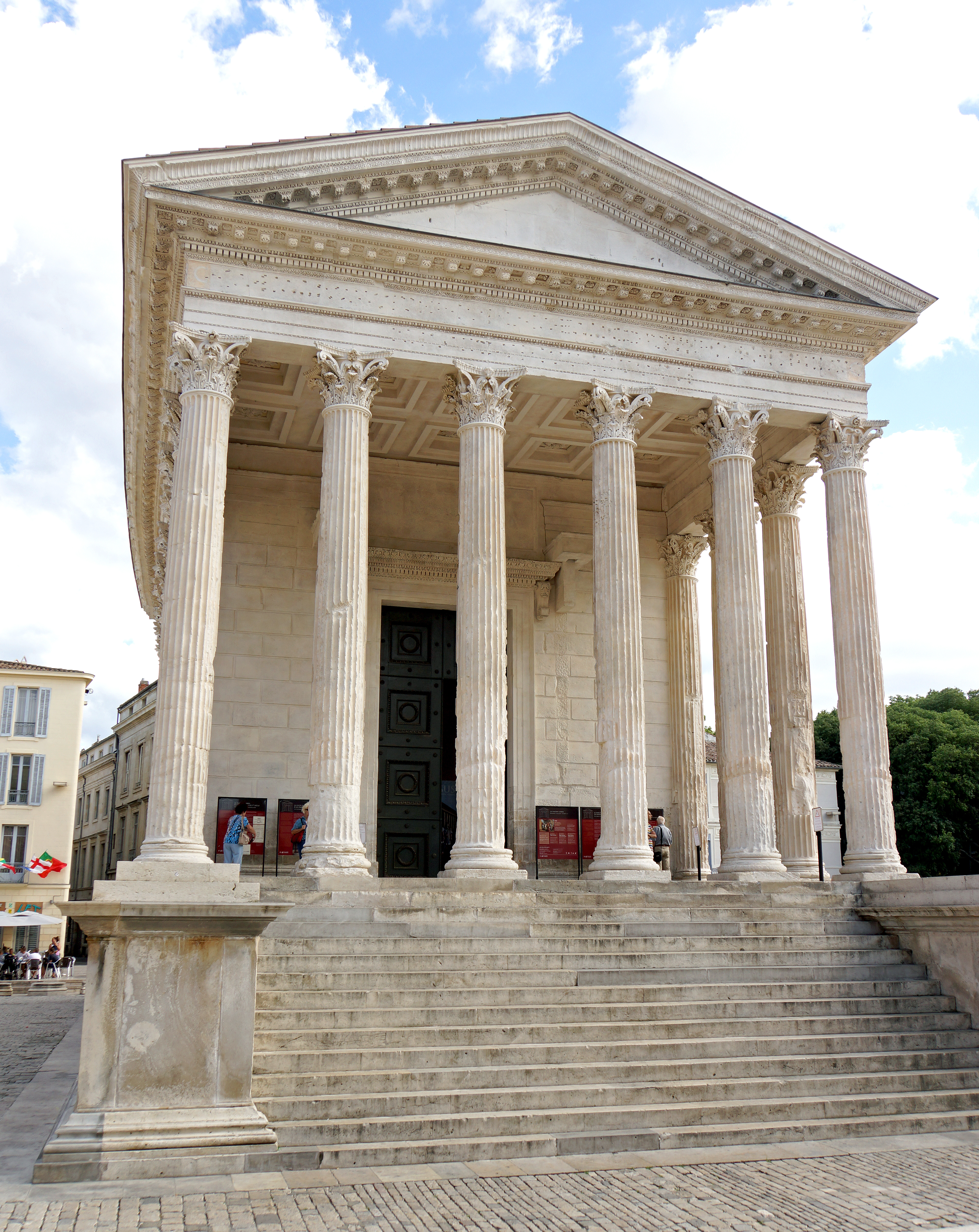 PLEASE, NO invitations or self promotions, THEY WILL BE DELETED. My photos are FREE to use, just give me credit and it would be nice if you let me know, thanks. I did not go inside all all that is there is a movie to be seen..... The Maison Carrée (Square House) stands in the centre of town. Dating from the 1st century AD, it was dedicated to Caius and Lucius Caesar, adopted grandsons of Emperor Augustus. It has been used for various functions since the 11th century. It served as a consulate, a stable, apartments, and a church, as well as archives and a museum. Tourist information describes it as "the only fully preserved temple of the ancient world."